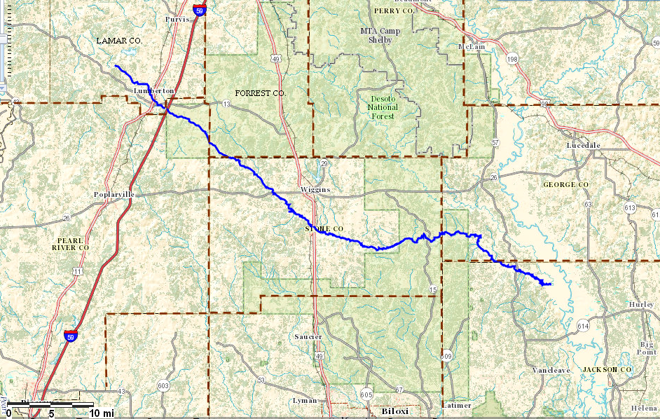 Location of Red Creek (bold blue line) within six southeastern counties (Lamar, Pearl River, Forrest, Stone, George, and Jackson) of Mississippi, USA.